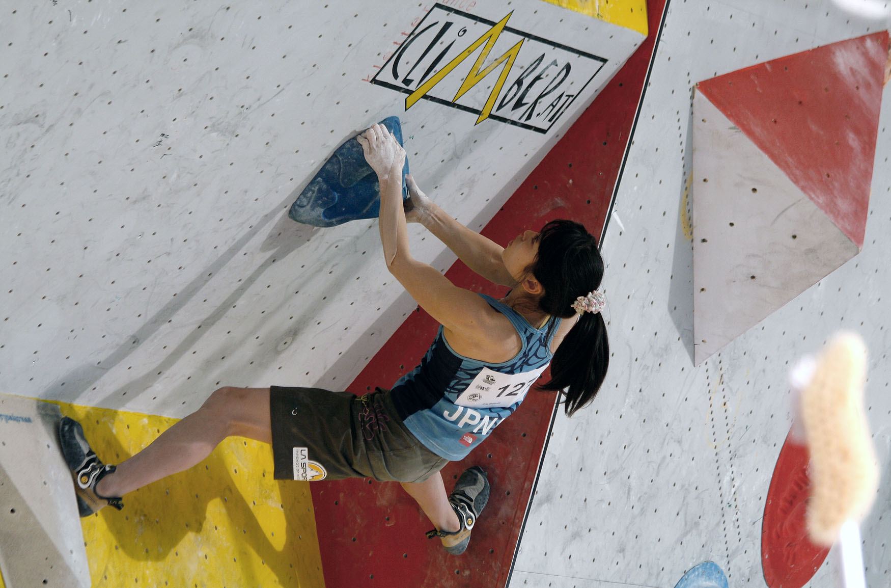 Momoka Oda during qualifications at the IFSC Boulder Worldcup Vienna 2010.